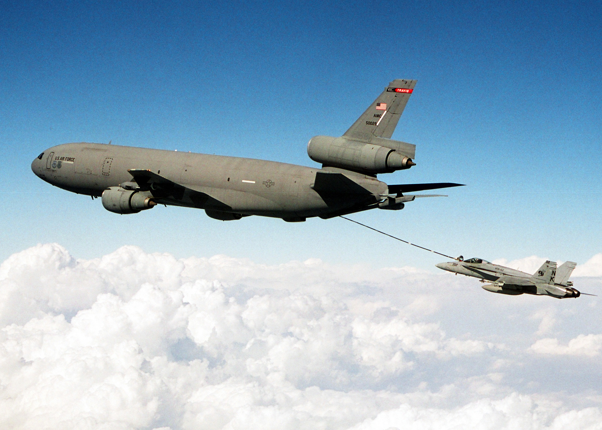 At sea with USS Abraham Lincoln (CVN 72) Nov. 7, 2002 -- A United States Air Force KC-10 “Extender” refuels a F/A-18C “Hornet” assigned to the “Stingers” of Strike Fighter Squadron One One Three (VFA-113) during a patrol over the No-Fly zone in Southern Iraq. VFA-113 is embarked with Carrier Air Wing Fourteen (CVW-14) aboard the Abraham Lincoln and is on a regularly scheduled six-month deployment conducting combat missions in support of Operation Enduring Freedom and Operation Southern Watch. U.S. Navy photo by Lt. Cmdr. Charles Radosta. (RELEASED)